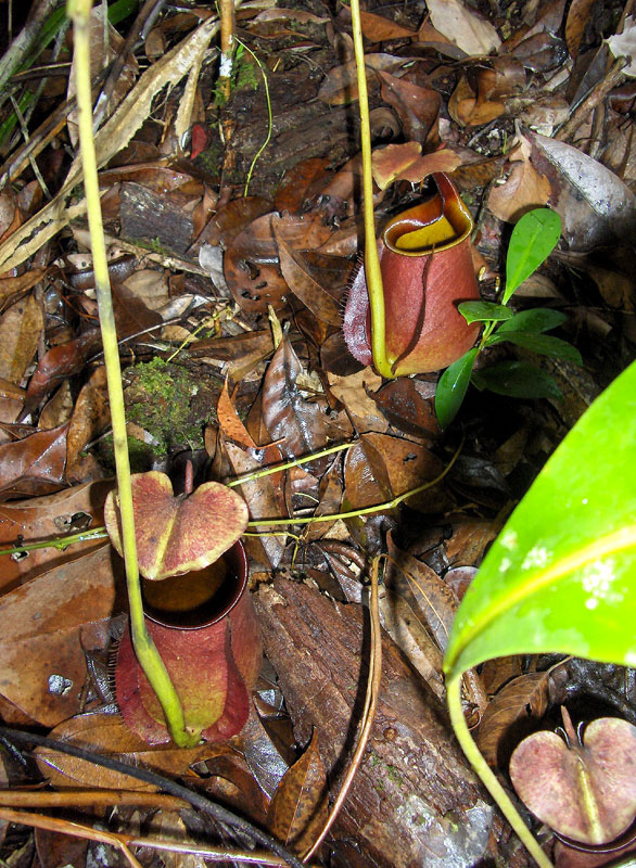 Nepenthes bicalcarata lower pitchers.